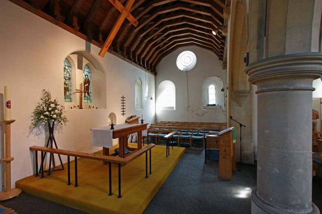 St Peter, Whitfield, Kent - Interior, near to Guston, Kent, Great Britain.